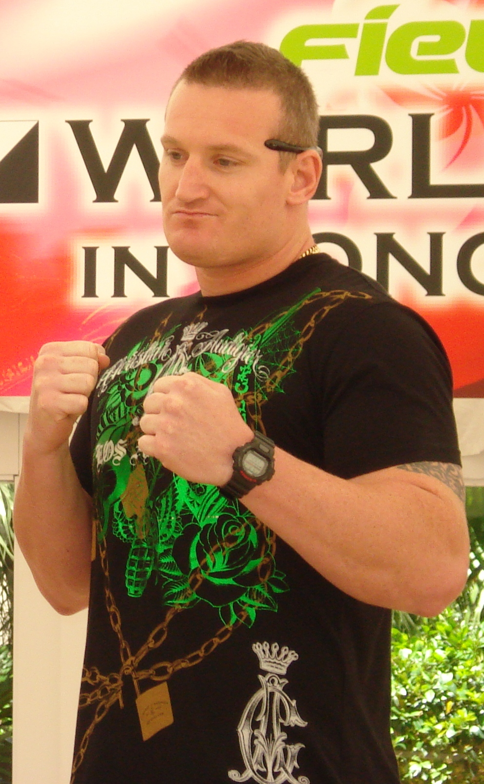 This picture was taken by myself during K-1 World Grand Prix 2007 in Hong Kong press conference in 3 August 2007. I give permission Wikipedia to use this image as profile picture. (User talk:umi1903